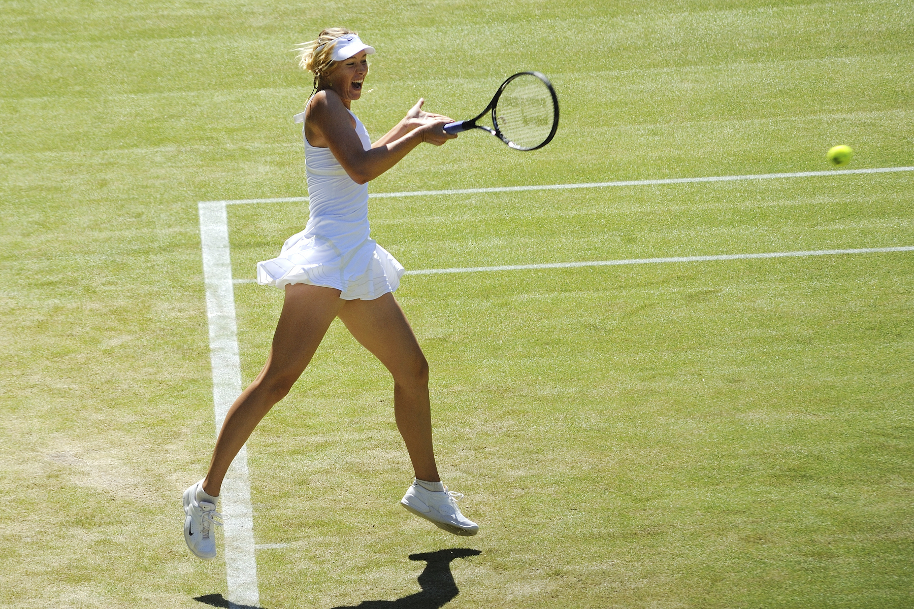 Maria Sharapova against Gisela Dulko in the 2009 Wimbledon Championships second round